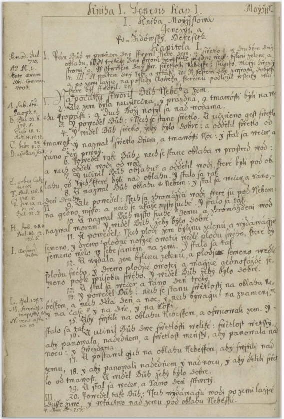 This page comes from digitalisation efforts of digitalising the Kamaldul Bible. First complete translation of bible to Slovak language know to date. It represents frist page of Genesis book.